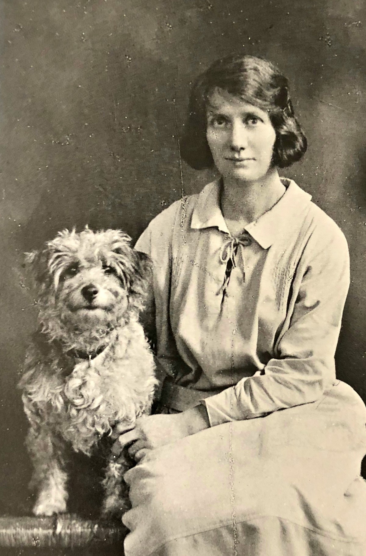 Veronica Whall and friend, c 1915